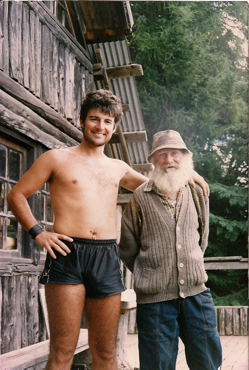 Otto Meiling in 1989, shortly before his death.